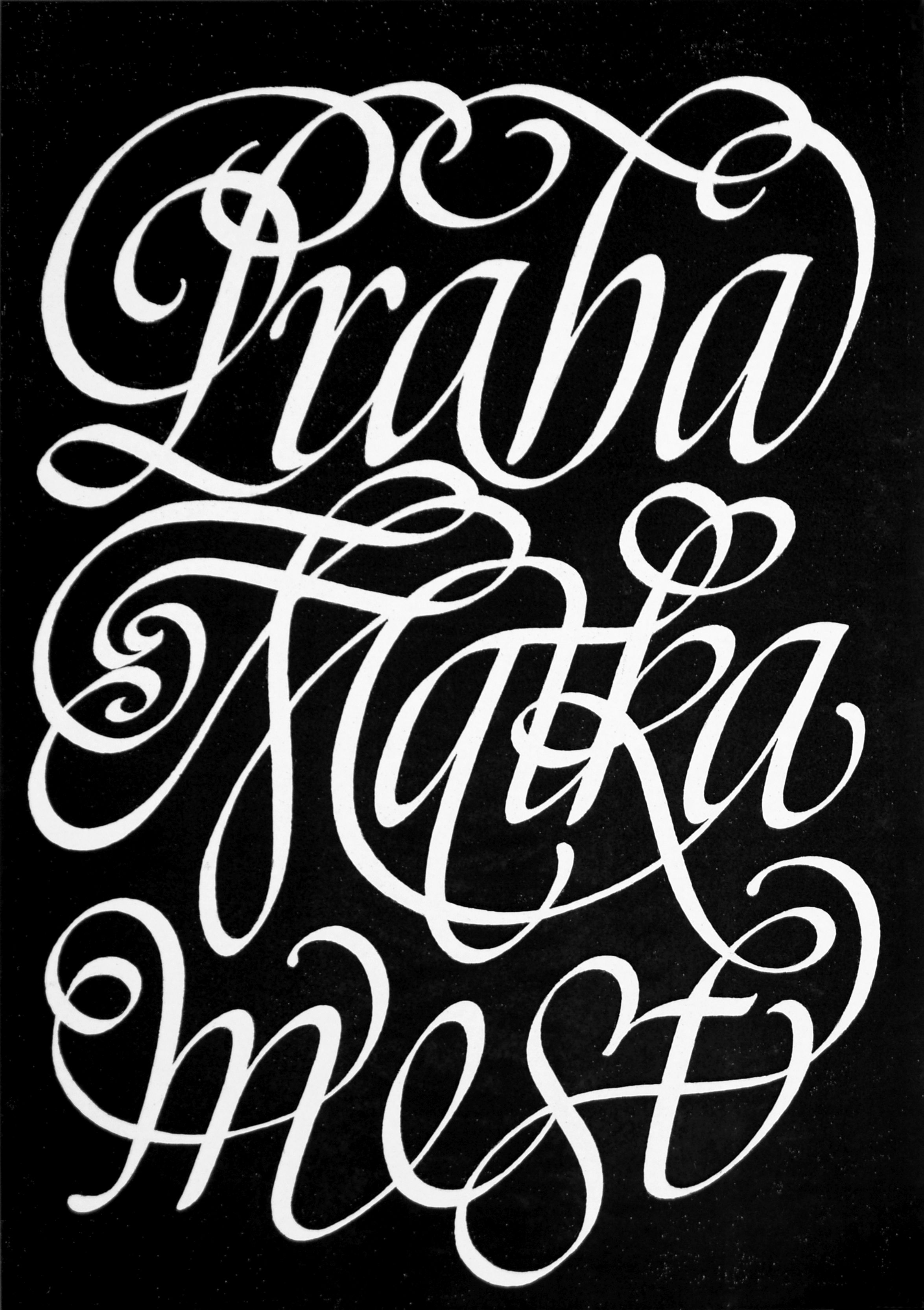 Jiří Blažek, typograph, Cancellaresca, ca. 1970